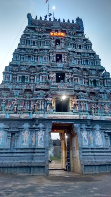 Ambarmahalam mahalesvarar temple திருமாகாளம் மாகாளநாதர் கோயில்